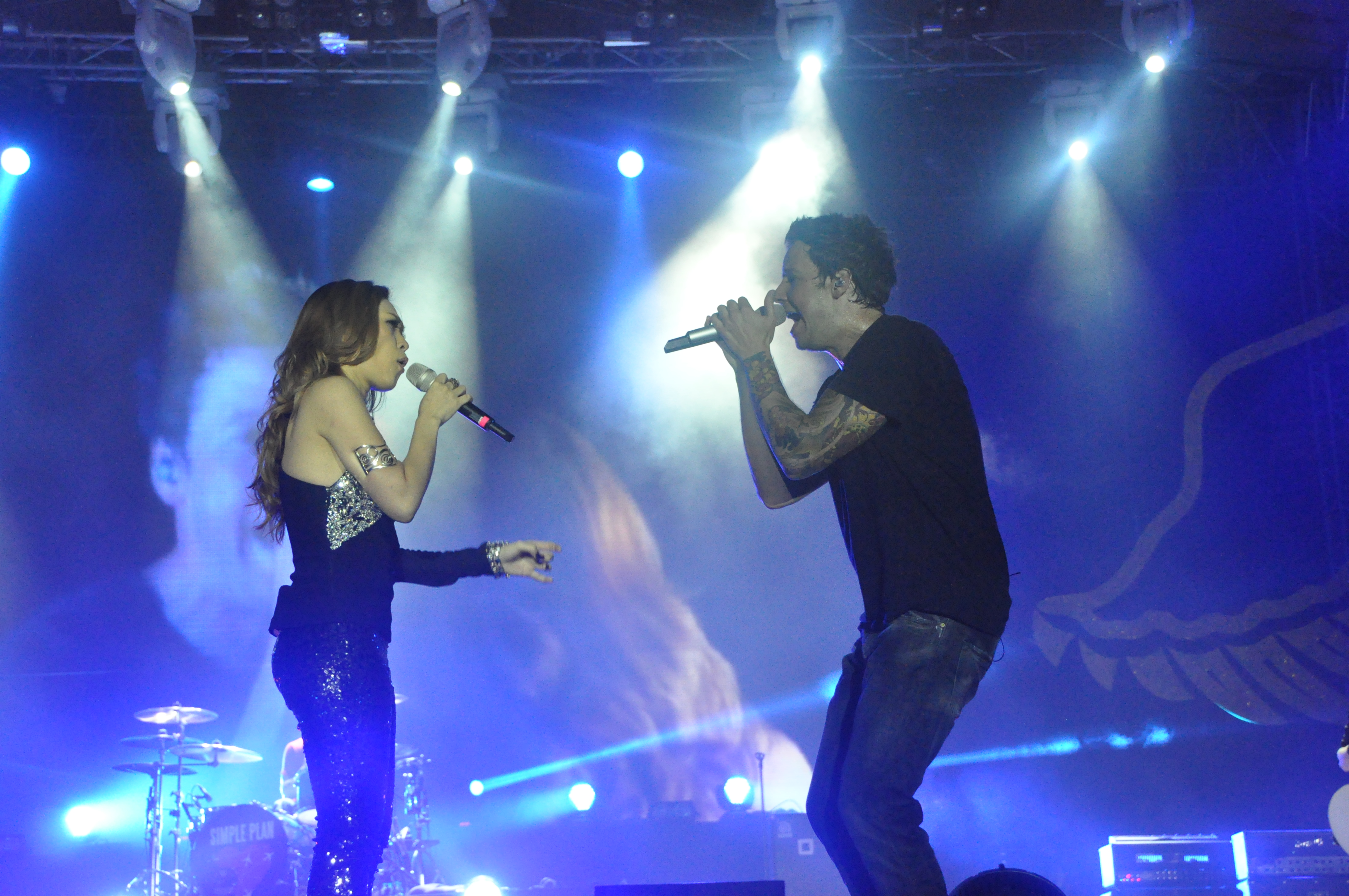 USAID co-sponsors MTV EXIT concert, campaign against human trafficking Photo: USAID/Vietnam